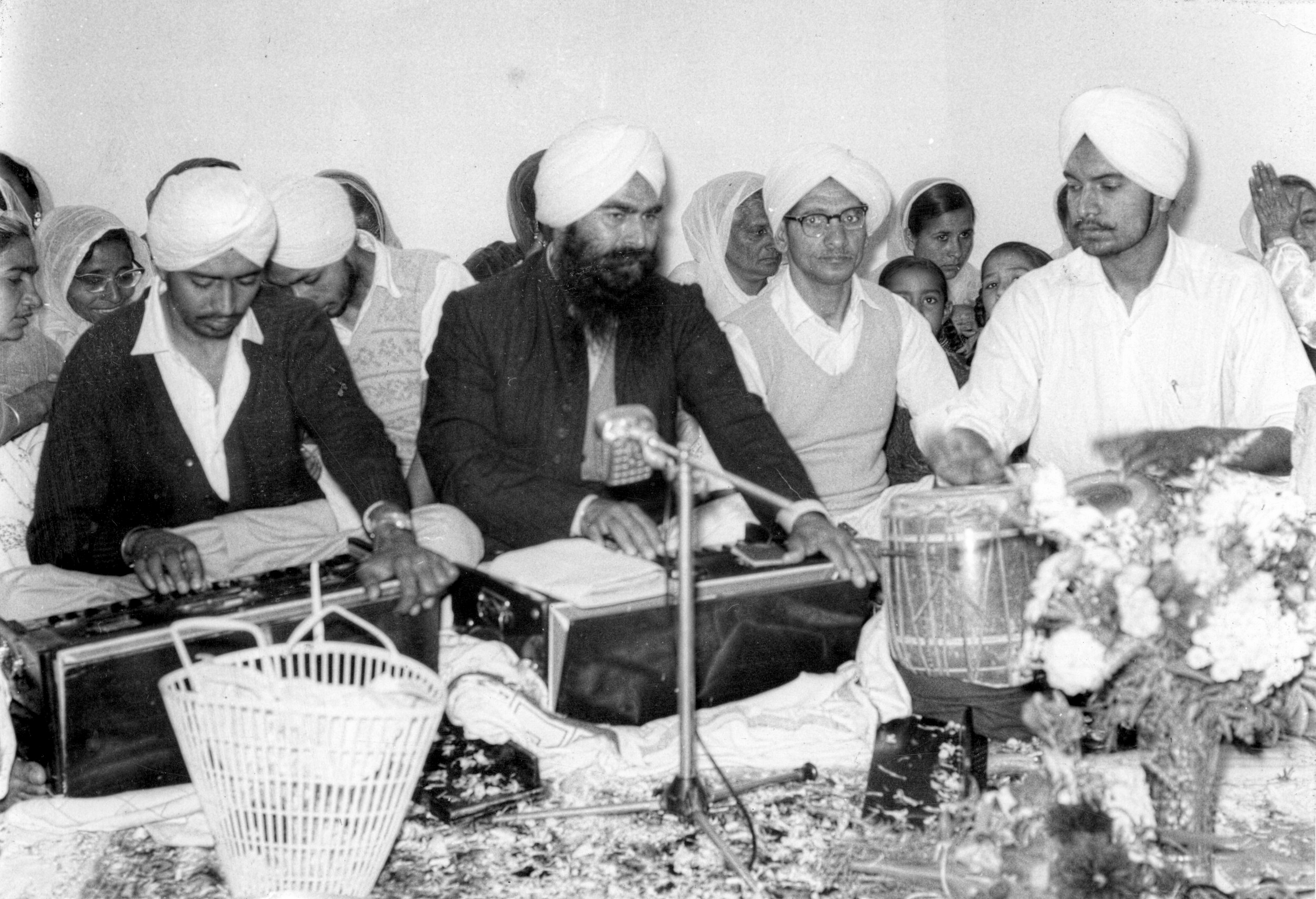 Sikhism Related photo of my Uncle performing kirtan in Kenya.